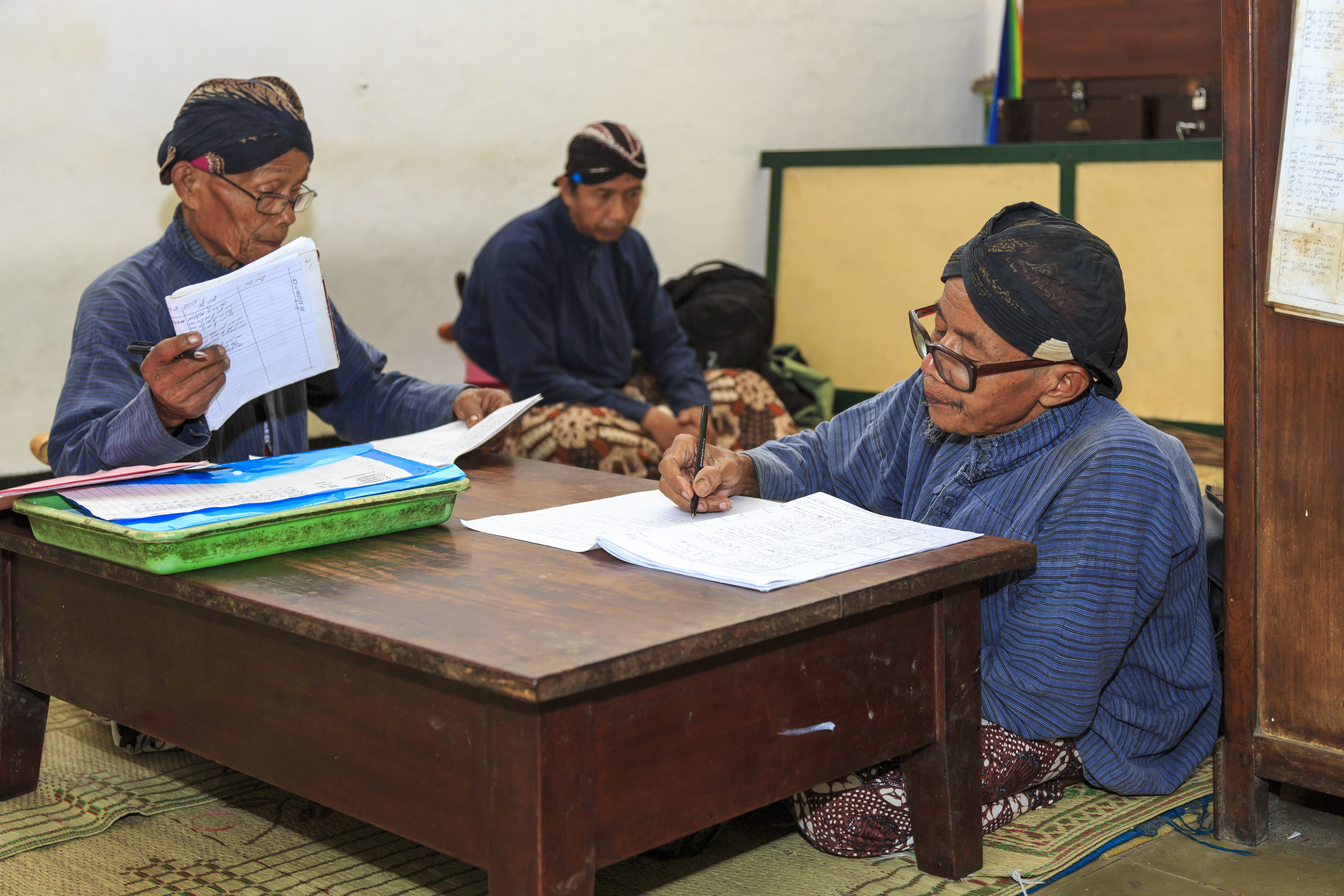 Yogyakarta, Indonesia: Palace guards doing administrative work.